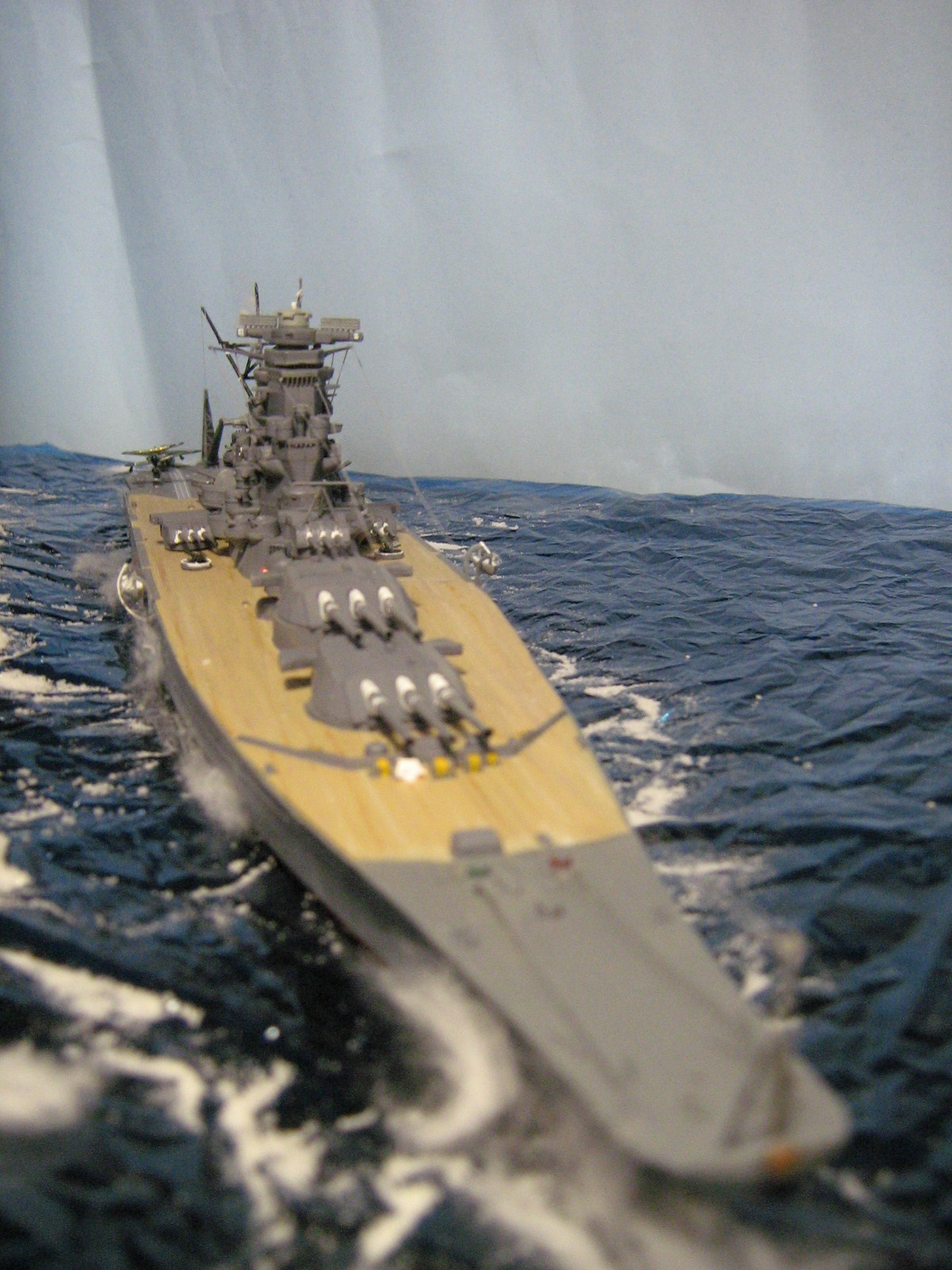 Model of Musashi